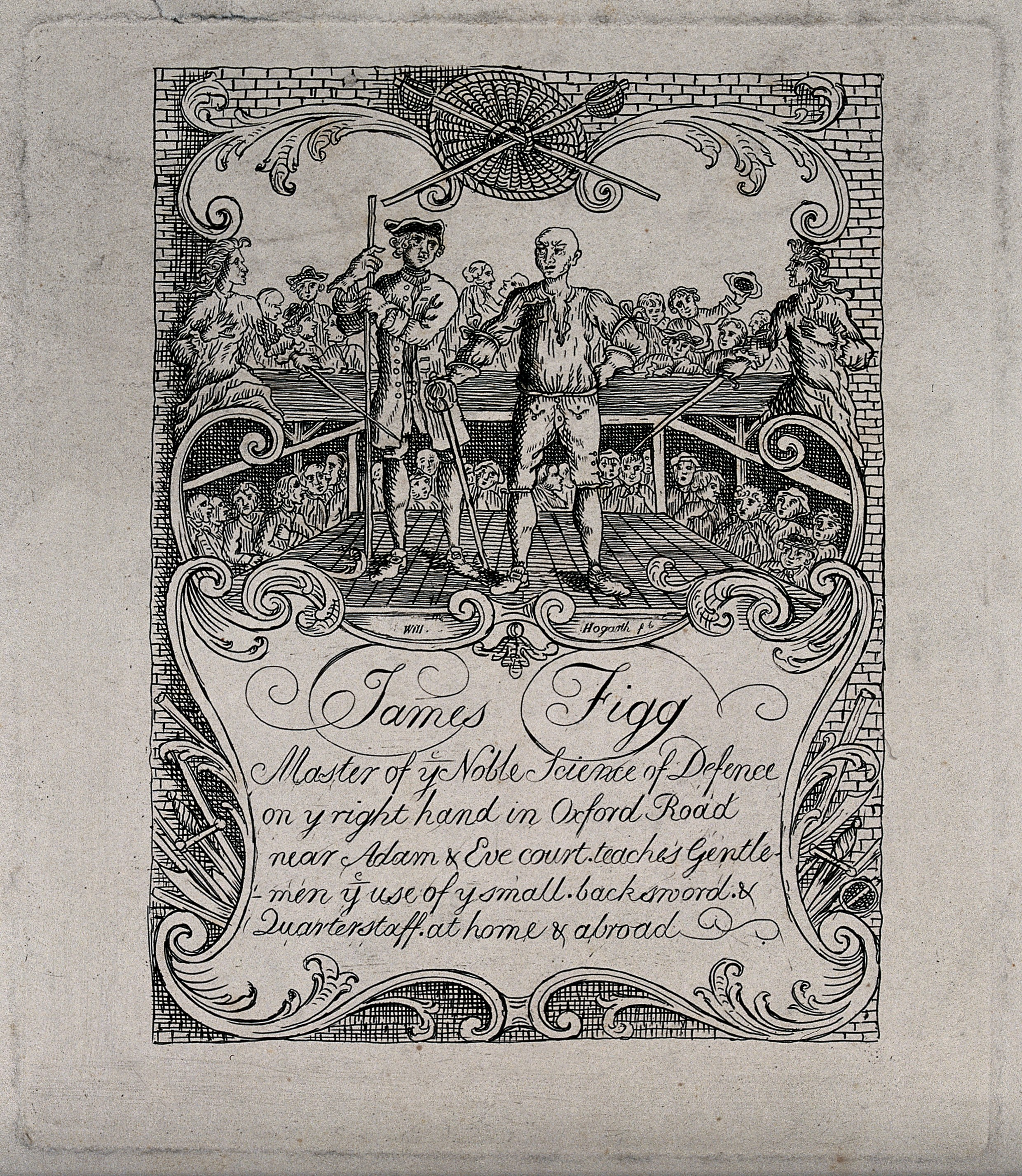 Ticket for James Figg, the famous pugilist. He is shown on stage holding his sword. Etching after W. Hogarth. Iconographic Collections Keywords: James Figg; William Hogarth